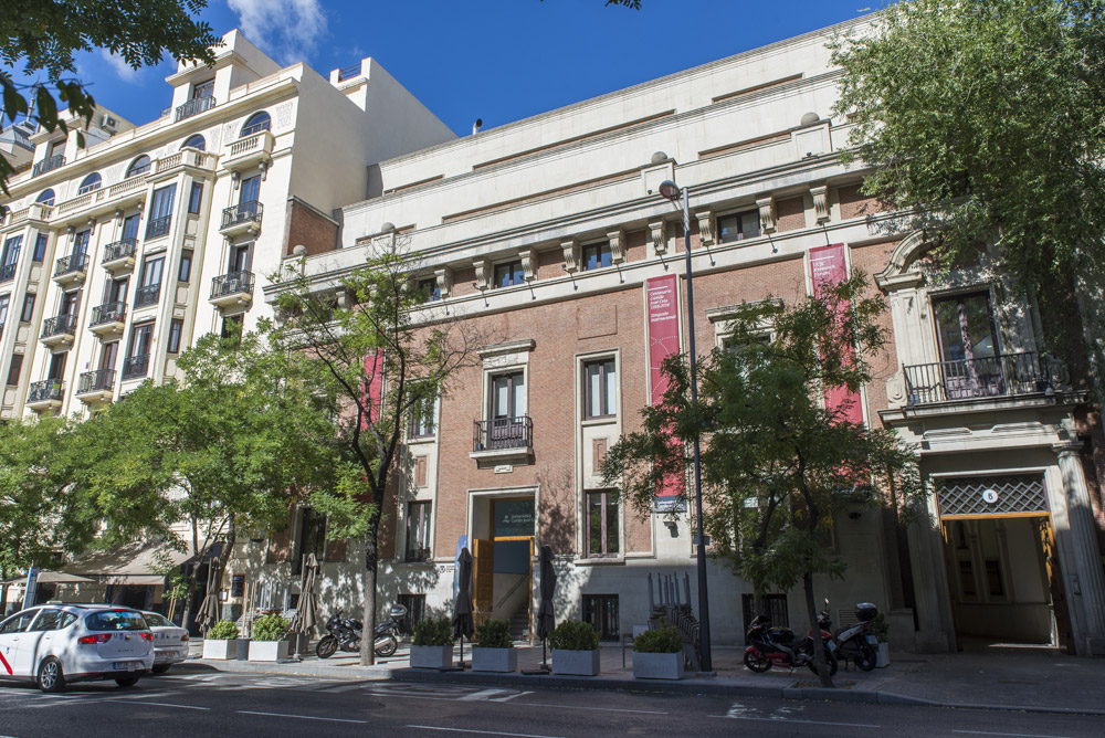 UCJC Graduate School city campus, in Almagro Street, Madrid